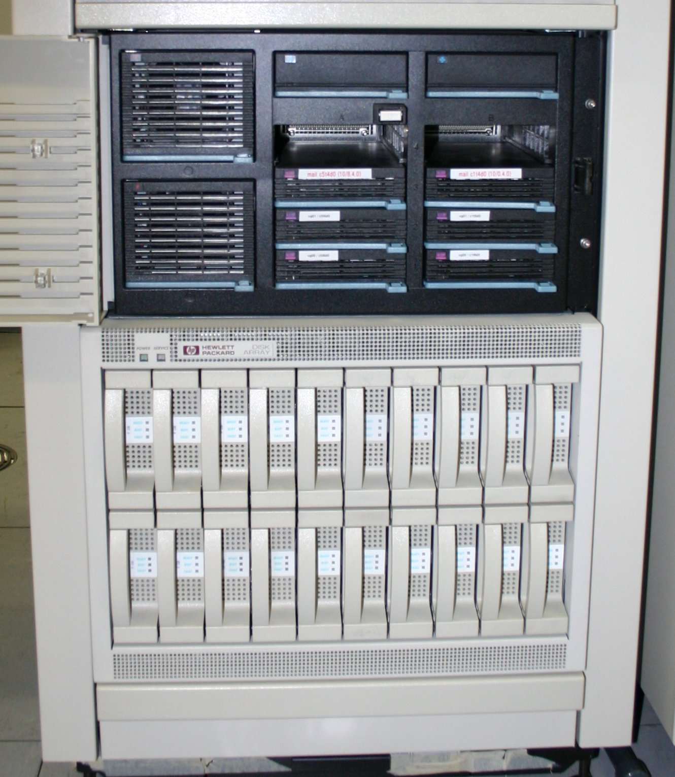 HP Disk Arrays (HASS and NIKE)